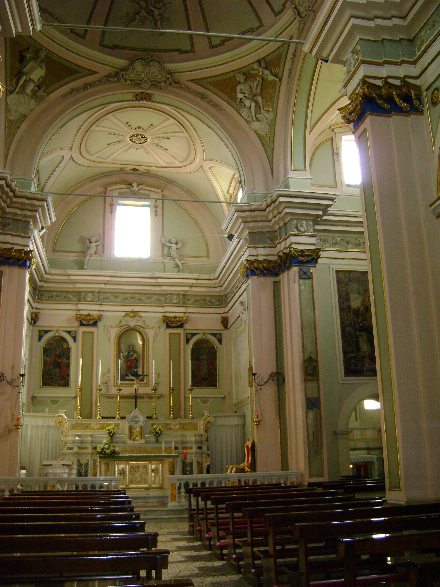 The interior of the church of Santa Vittoria, Tornareccio, province of Chieti, Abruzzo